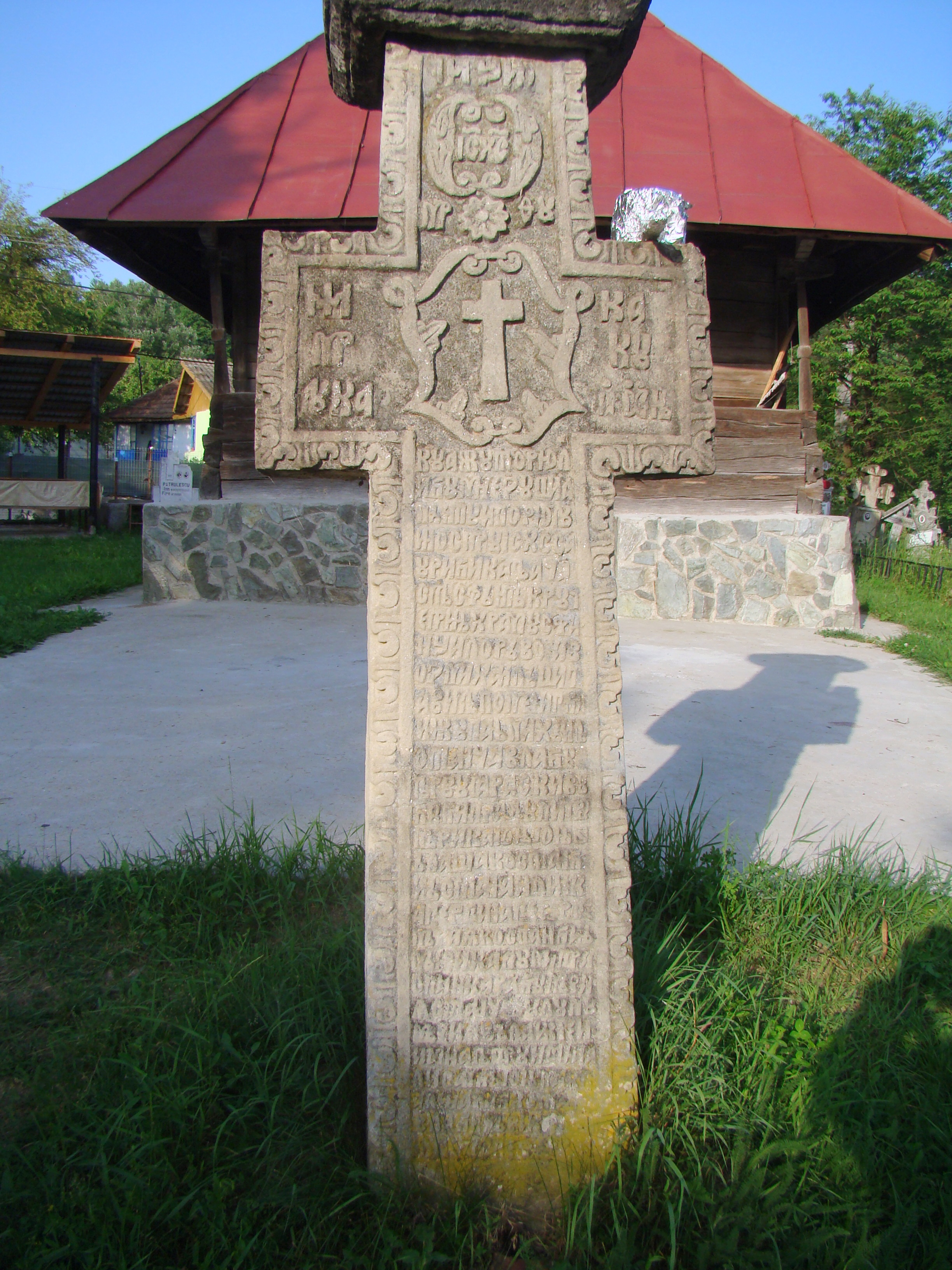 Wooden church in Roșia de Amaradia, Gorj county, Romania